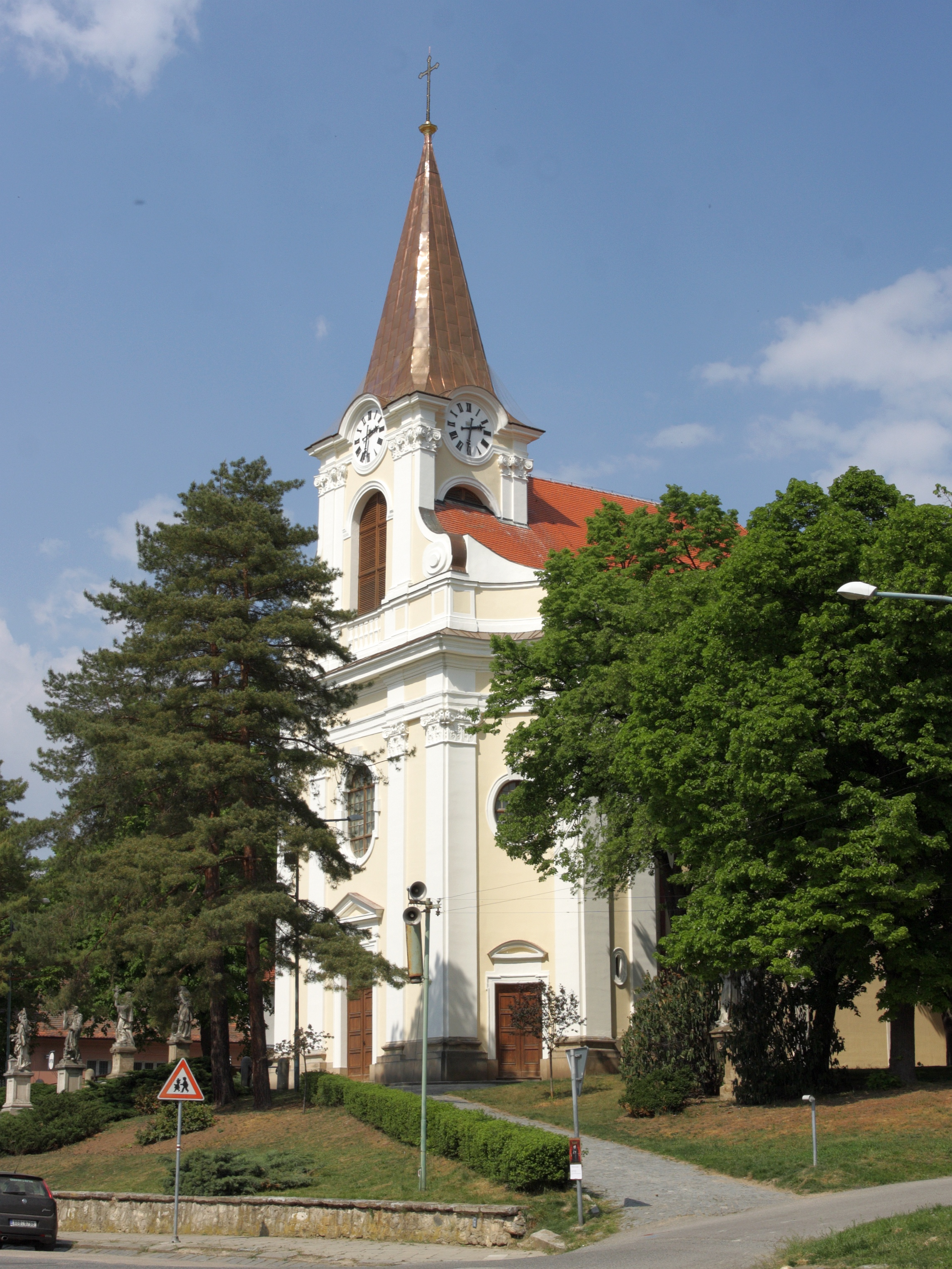 Židlochovice, Brno-Country District, Czechia.